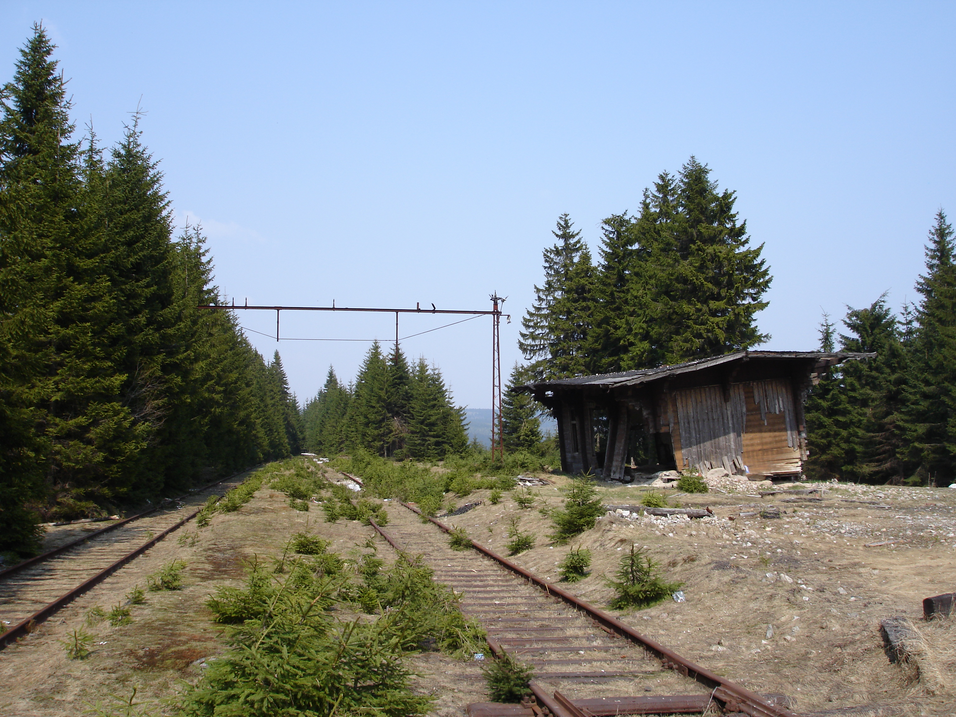 Jelenia Góra–Kořenov railway line: station Jakuszyce